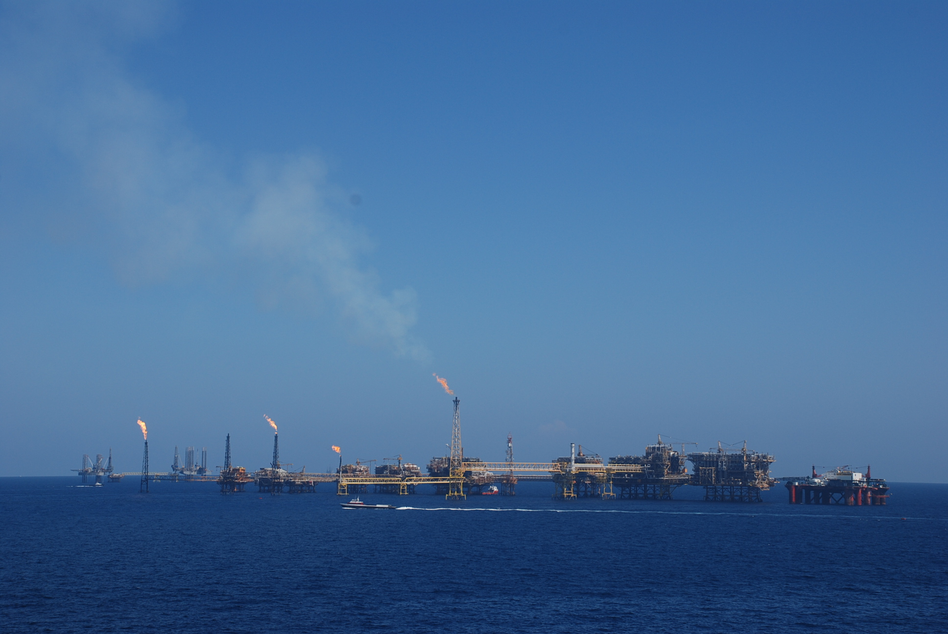 Akal-C Platforms